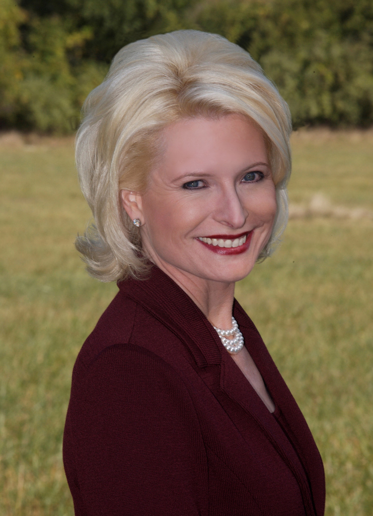 Photo of Callista L. Gingrich, wife of Speaker Newt Gingrich, from his website